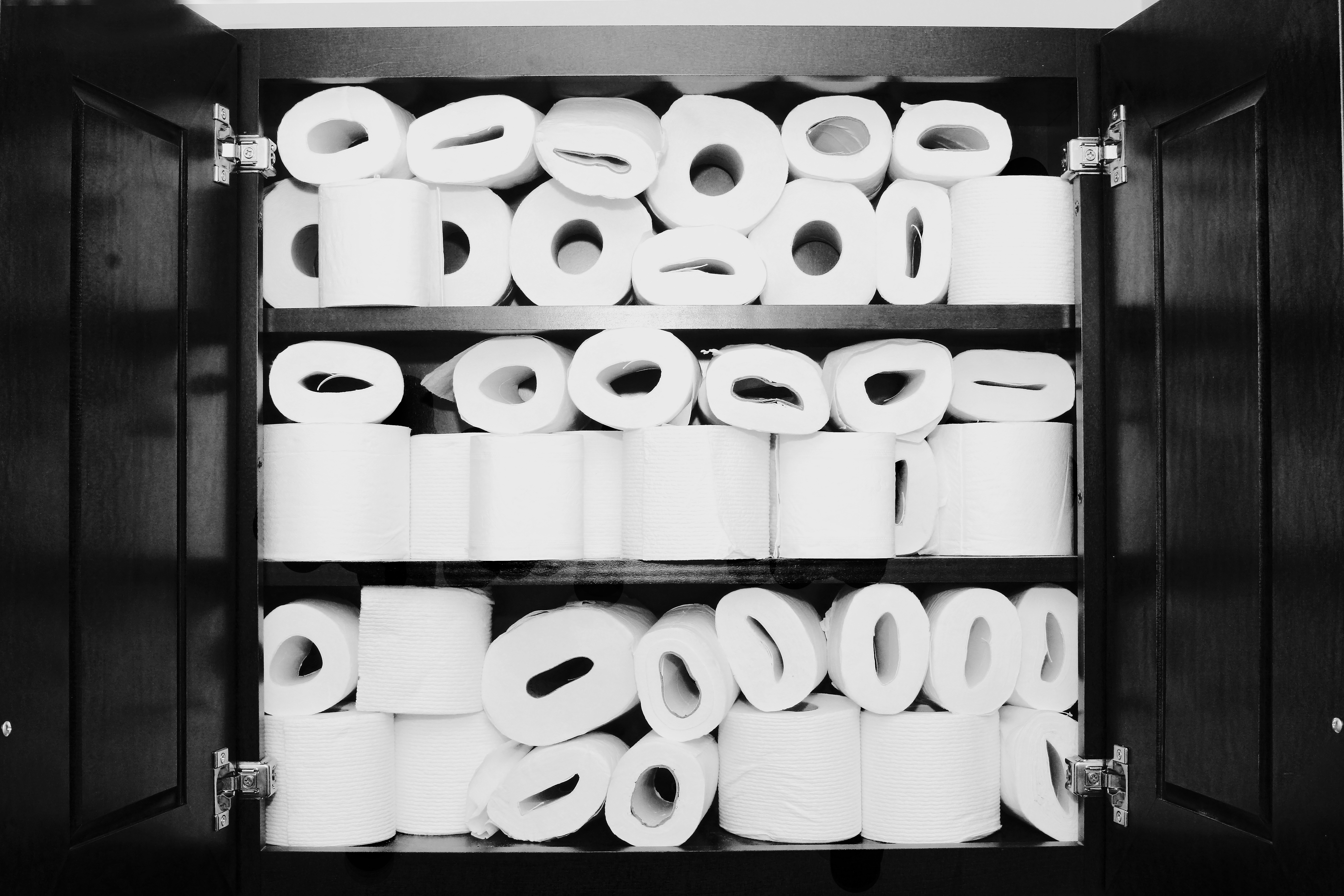 Hoarders of toilet paper in the pandemic